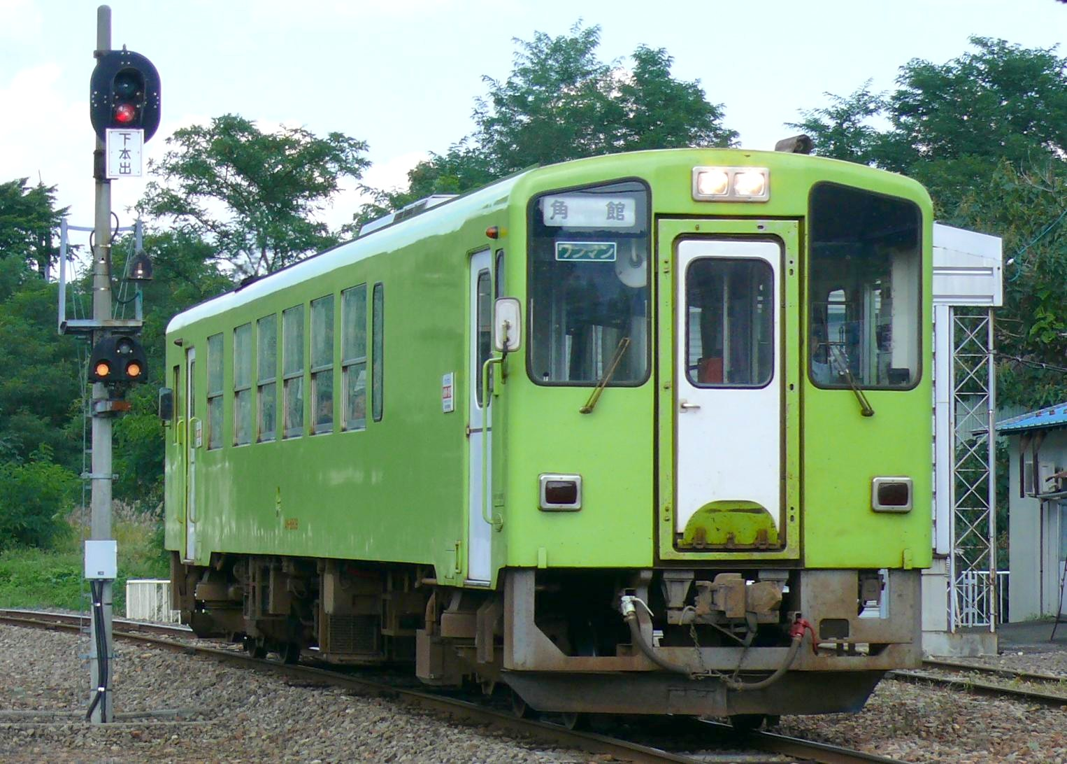 Akita Nairiku Jūkan Railway Type AN-8809 Train(Akita-prefecture,Japan).